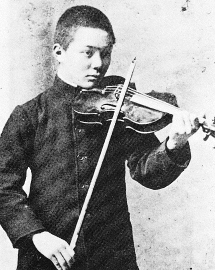 Tamezo Narita